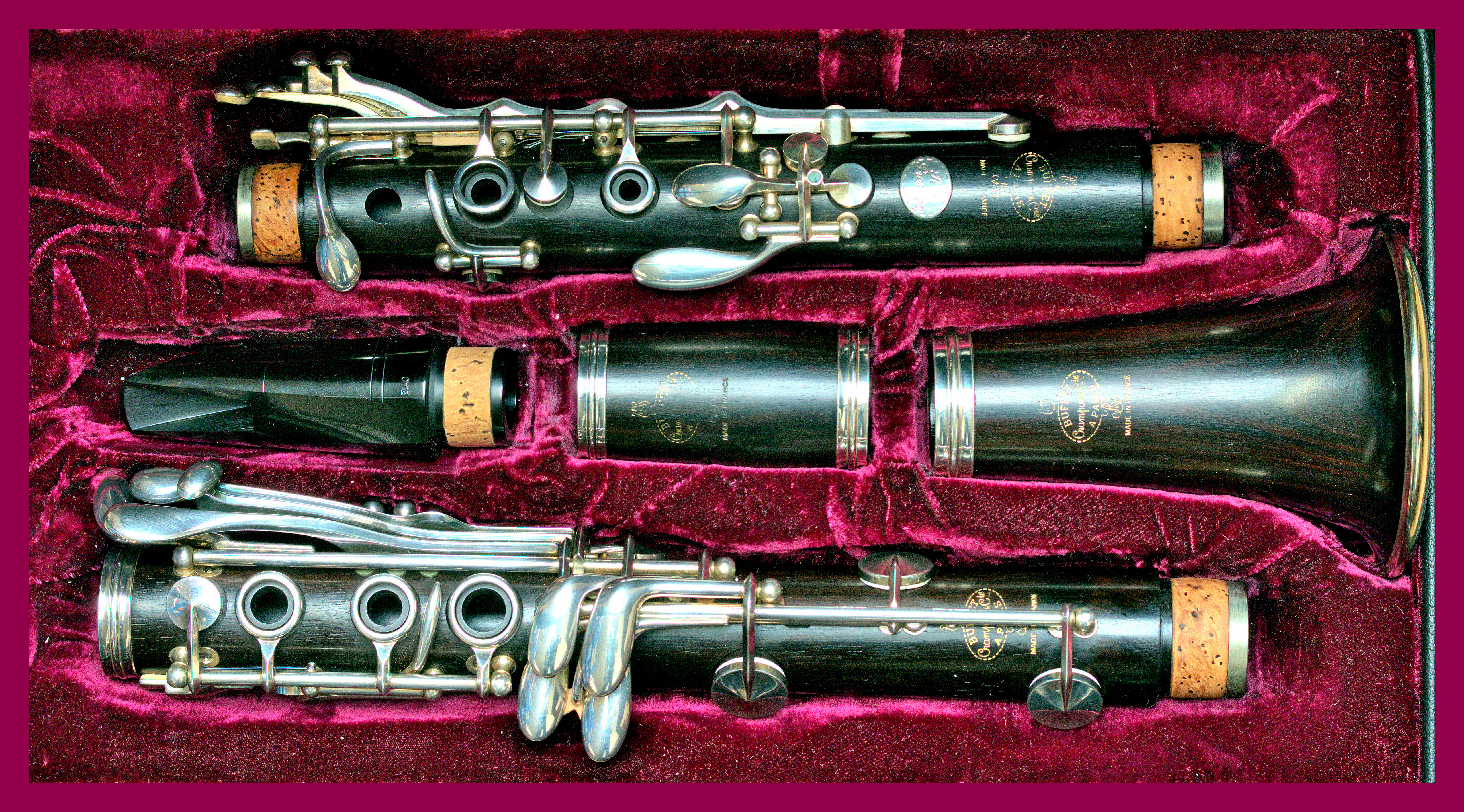 RC Prestige B-flat clarinet by Buffet Crampon. (Mouthpiece Vandoren B40.)